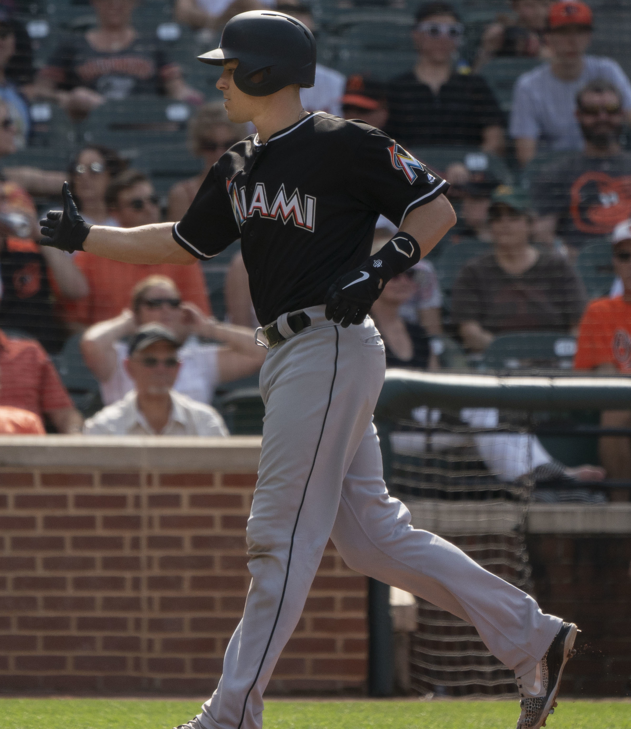 Brian Anderson and J. T. Realmuto of the Miami Marlins. Austin Wynns of the Baltimore Orioles. Camden Yards in Baltimore in 2018.